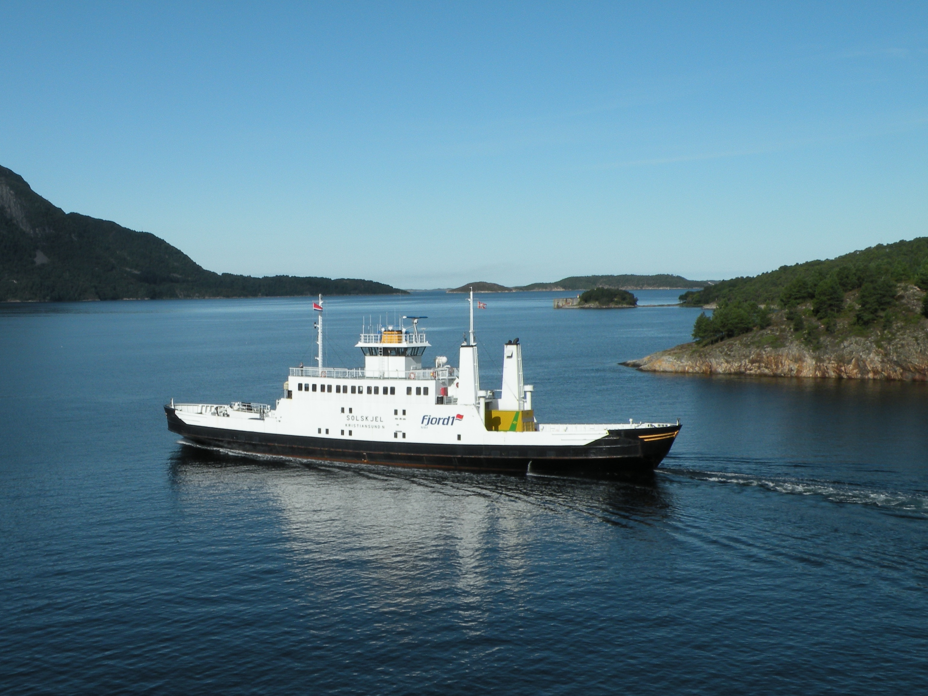 Norwegian car ferry MF Solskjel built in 1981.